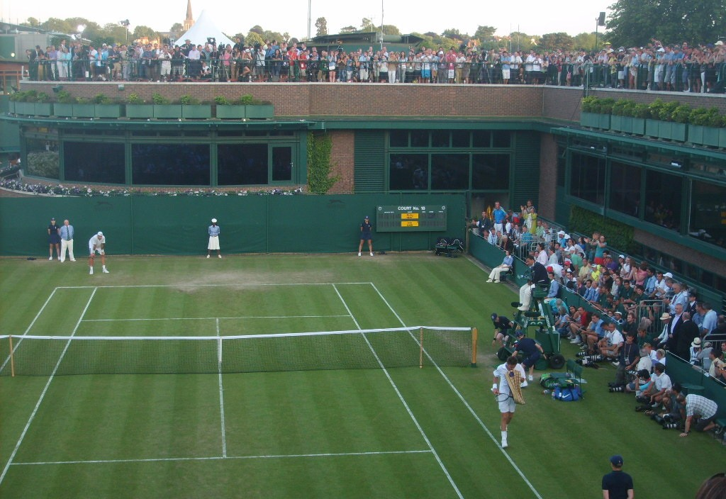 Isner-Mahut match, Wimbledon 2010. 9.26pm on the second day of the match, after the blackout of the scoreboard.